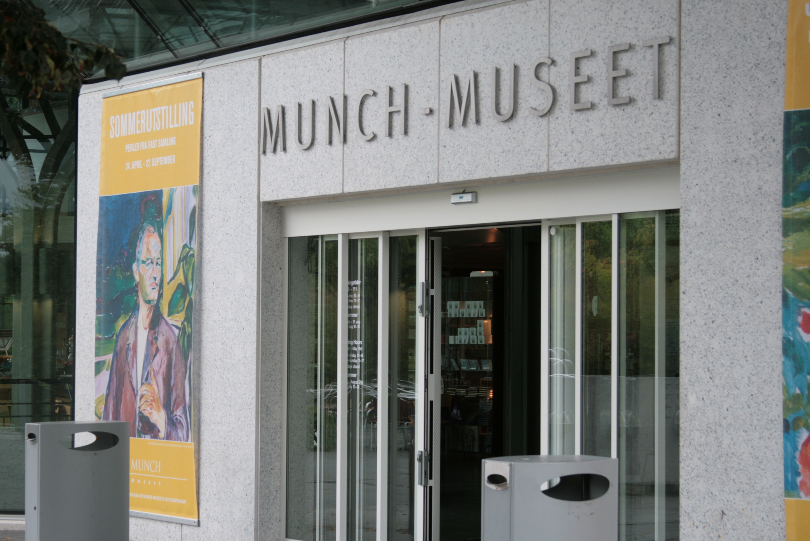 Munch Museum